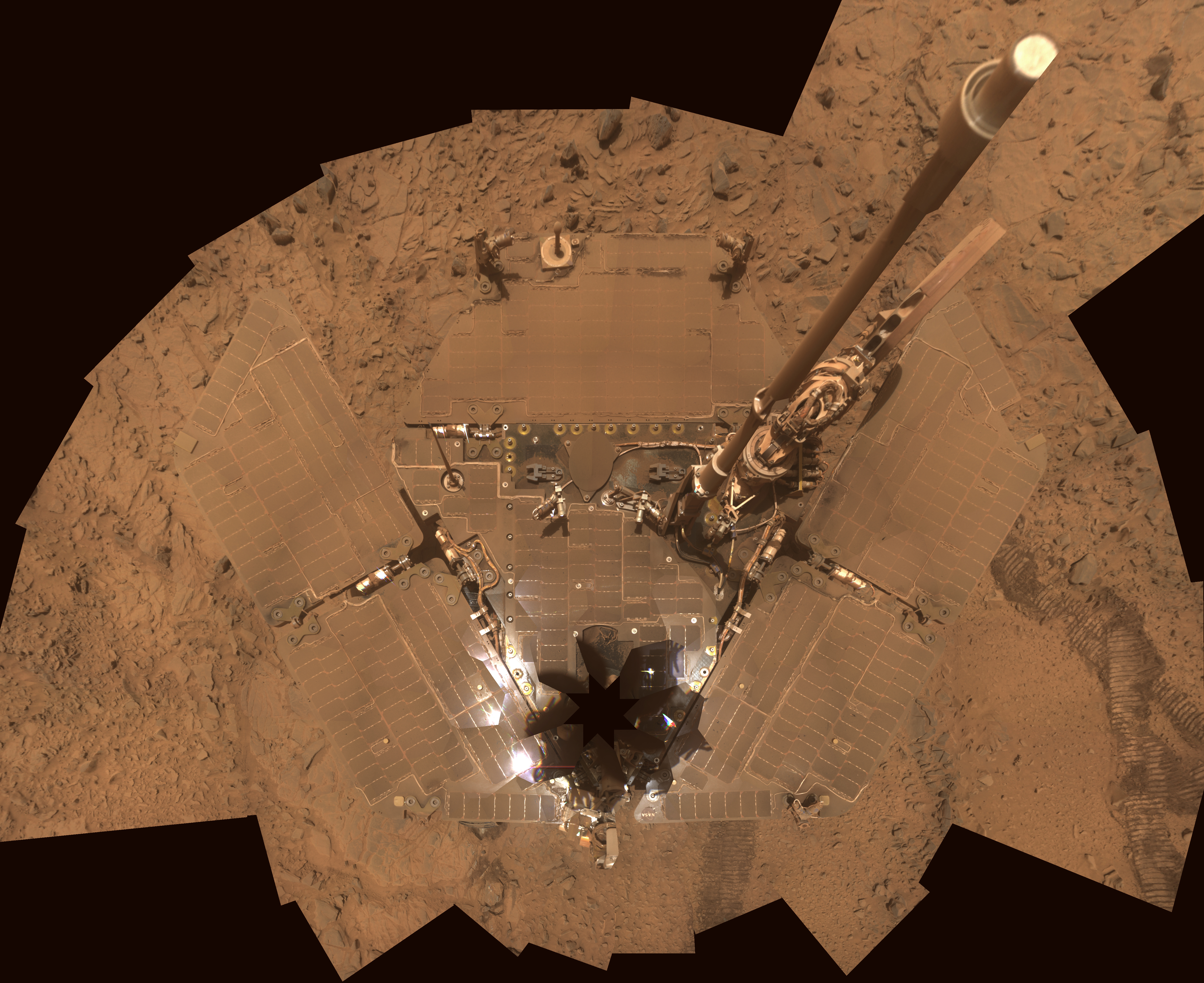 From press release: Dusty Solar Panels on Spirit The deck of NASA's Mars Exploration Rover Spirit is so dusty that the rover almost blends into the dusty background in this image assembled from frames taken by the panoramic camera (Pancam) during the period from Spirit's Sol 1,355 through Sol 1,358 (Oct. 26-29, 2007). Dust on the solar panels reduces the amount of electrical power the rover can generate from sunlight each sol. Earlier self-portraits by Spirit, such as one taken on Sol 586, offer a comparison view of cleaner solar panels. The vertical projection used here produces the best view of the rover deck, though it distorts the ground and antennas somewhat. The eight-pointed star shape near the front of the rover (bottom of the image) marks the location of the camera mast, which is out of view of the Pancam atop the mast. This mosaic view in approximate true color is a composite of frames taken through the Pancam's filters centered on wavelengths of 600 nanometers, 530 nanometers and 480 nanometers.